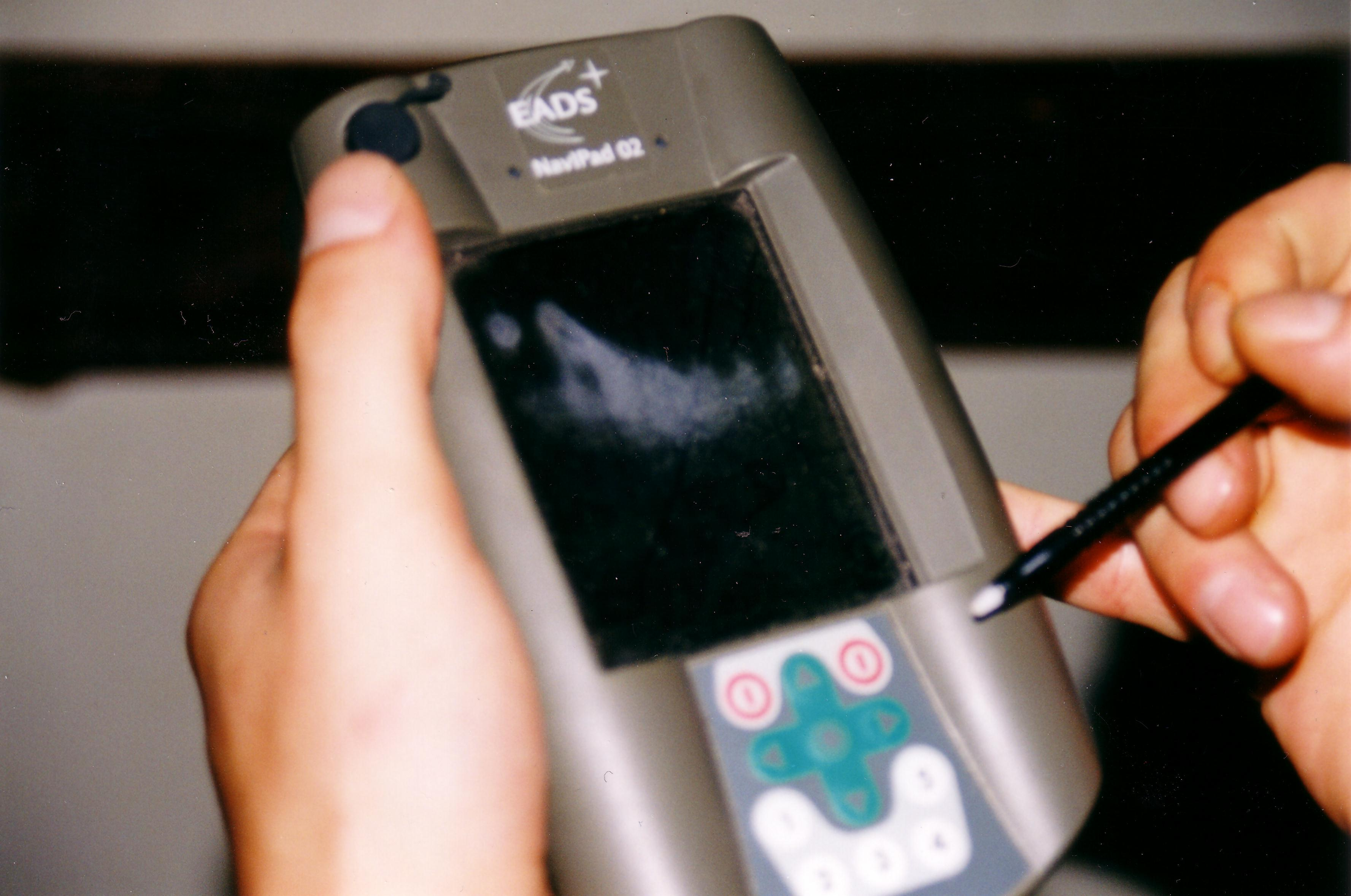 Prototyp: Personal Digital Assistant of the Future Soldier System IdZ (Infanterist der Zukunft) of the German Army. Fieldtest Kosovo